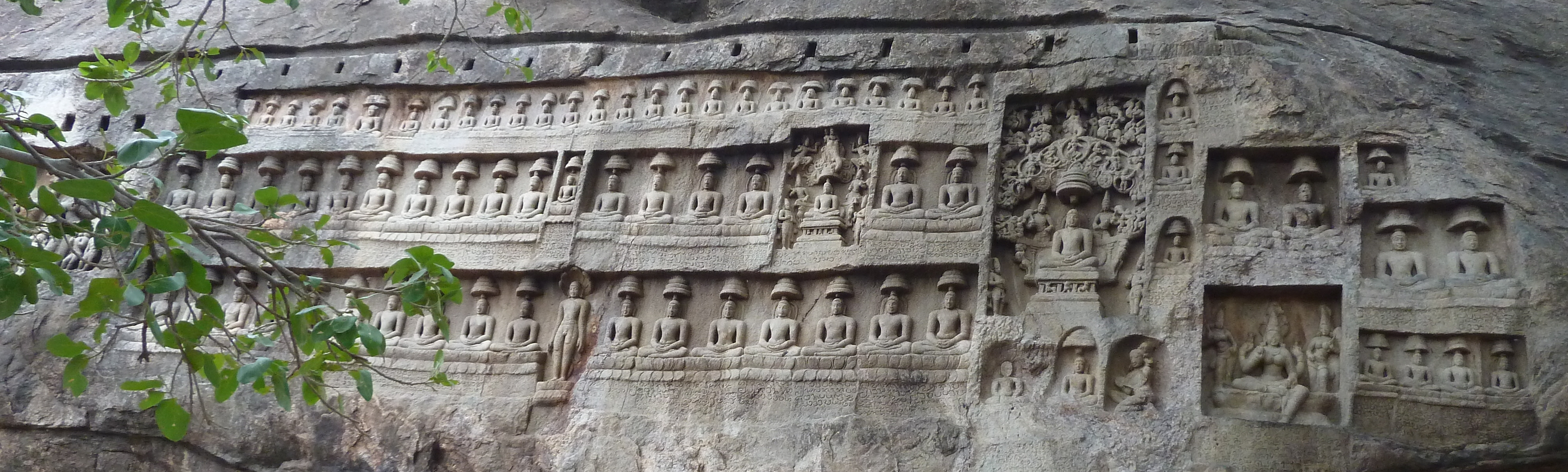 This is from Kalugumalai which has many rock cut Jain sculptures.